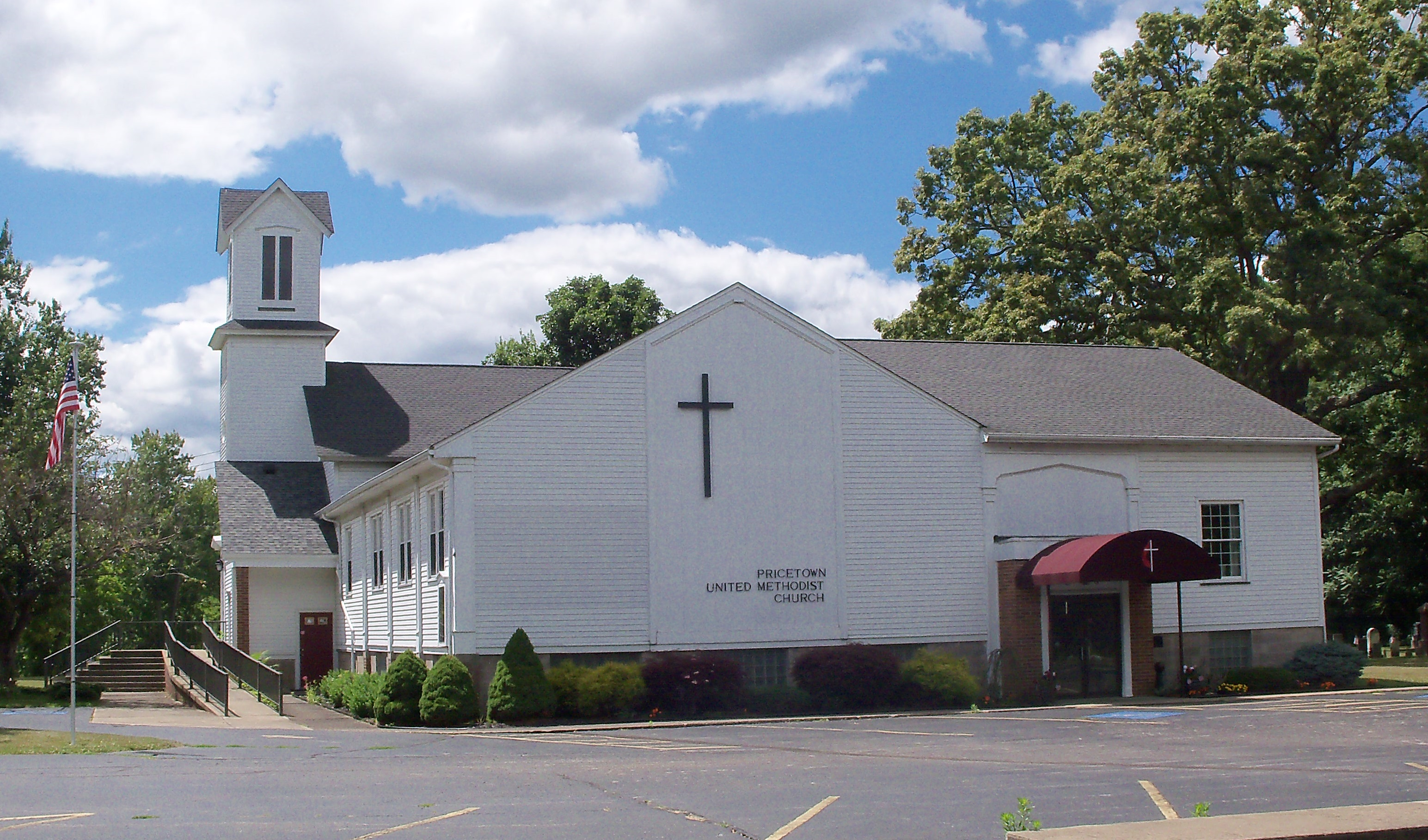 Methodist Church on county line in Trumbull County near Mahoning County, Ohio